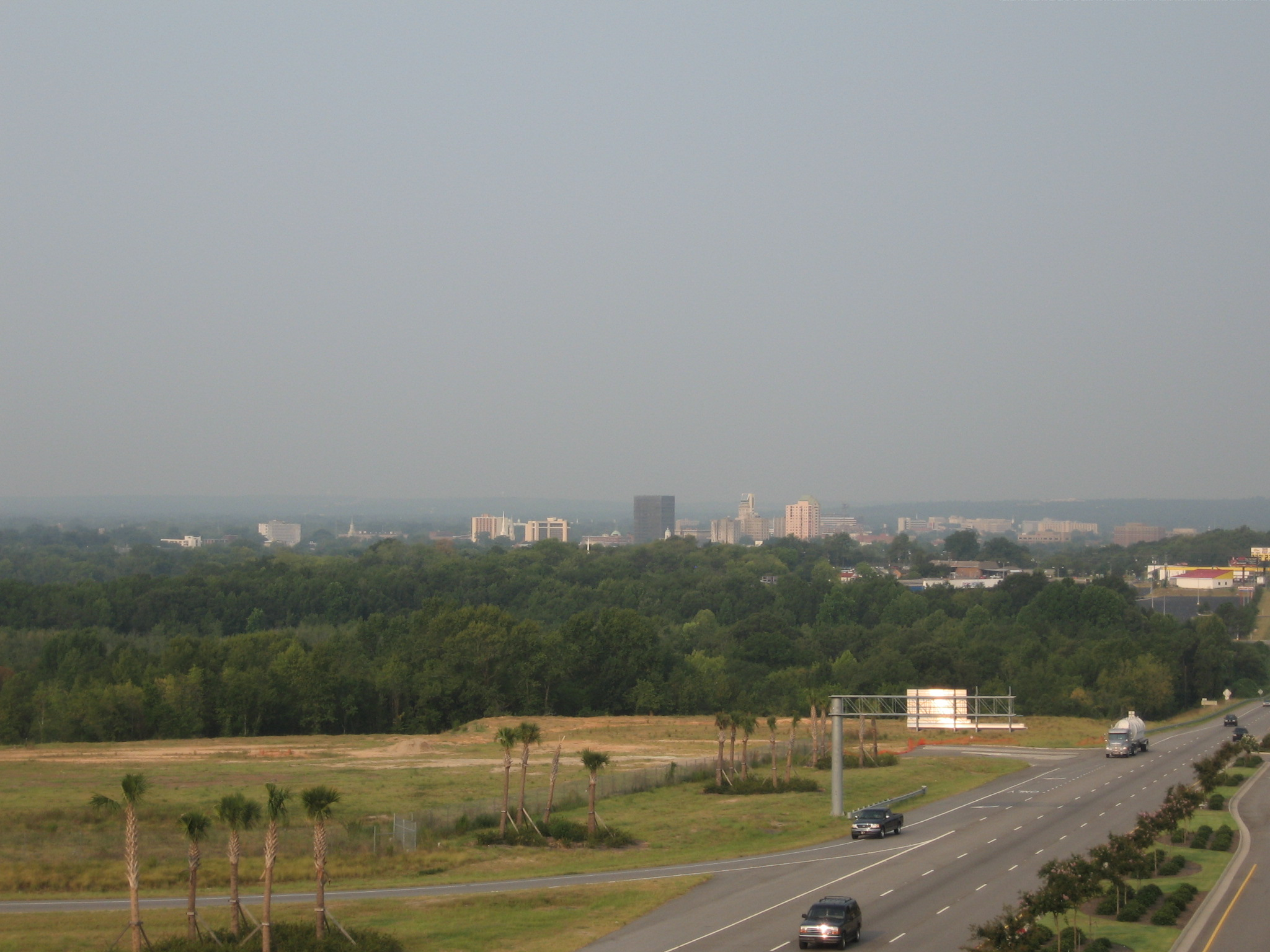 Downtown Augusta skyline as seen from I-520 overpass at Exit 17